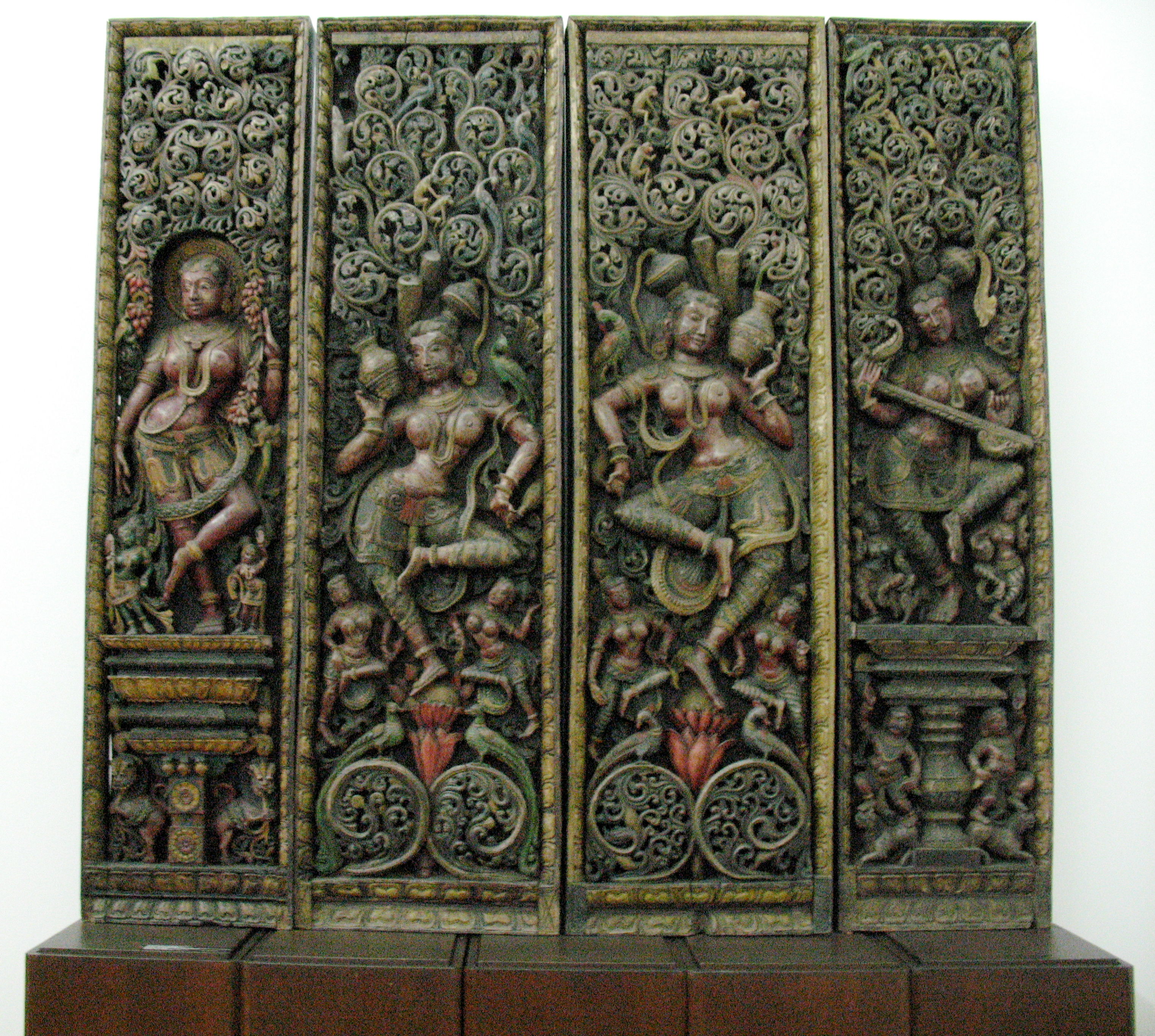 Ancient Indian art in the National Gallery for Foreign Art in Sofia